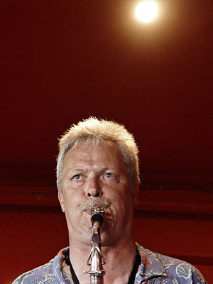 Jesper Zeuthen